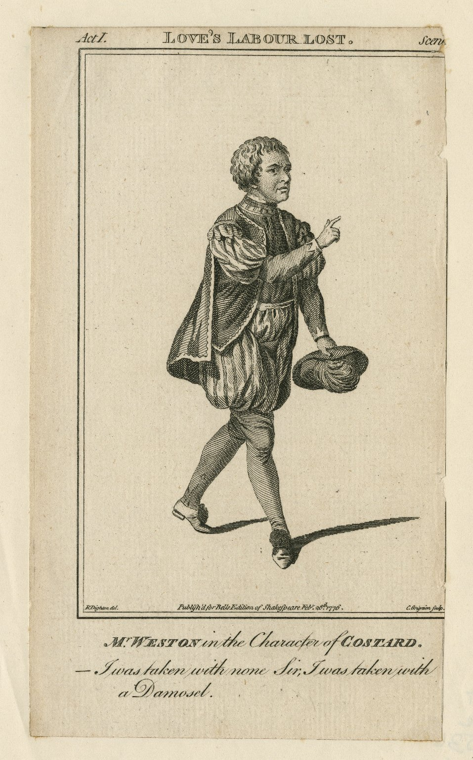 A 1776 print by Charles Grignion of Thomas Weston playing Costard in Love's Labour's Lost. Originally published in Bell's edition of Shakespeare.